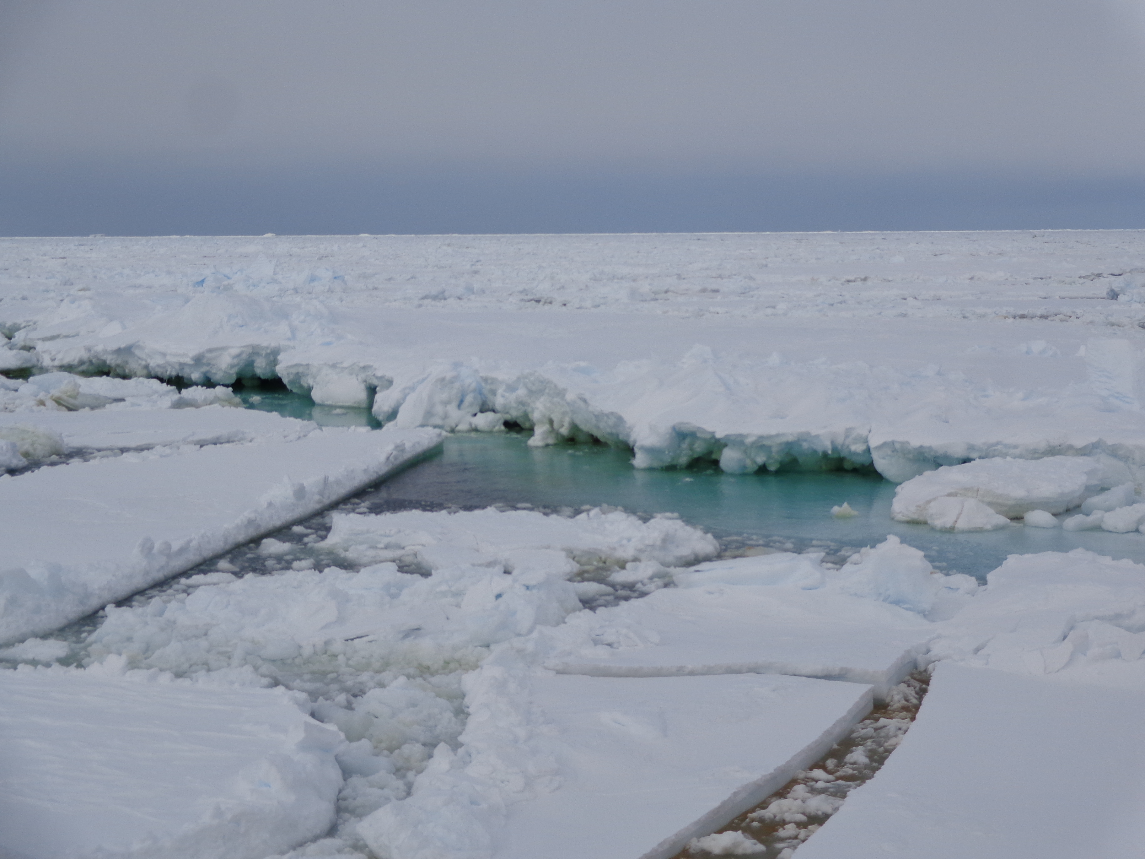 Ross Sea, Austral Summer 2016